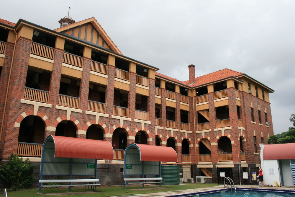 An image of the Edith Cavill Block of the Brisbane General Hospital Precinct